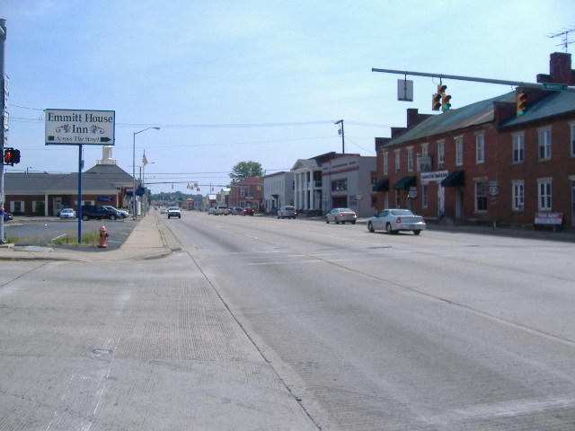 Looking east on Emmitt Avenue in Waverly, Ohio.